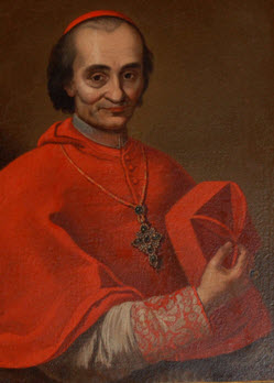 Hyacinthe Sigismond Gerdil